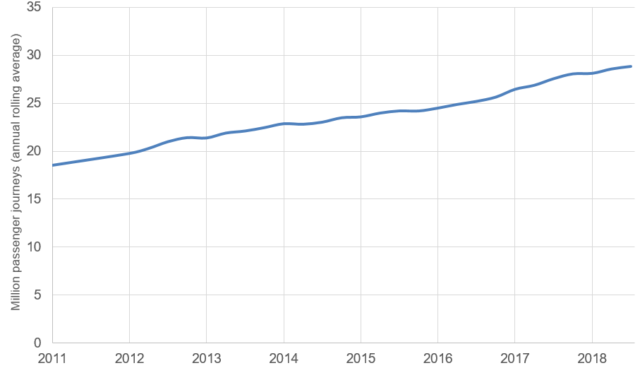 Chiltern passenger numbers in millions (annual rolling average) 2010/11 -2016/17 Q4 [1][2]